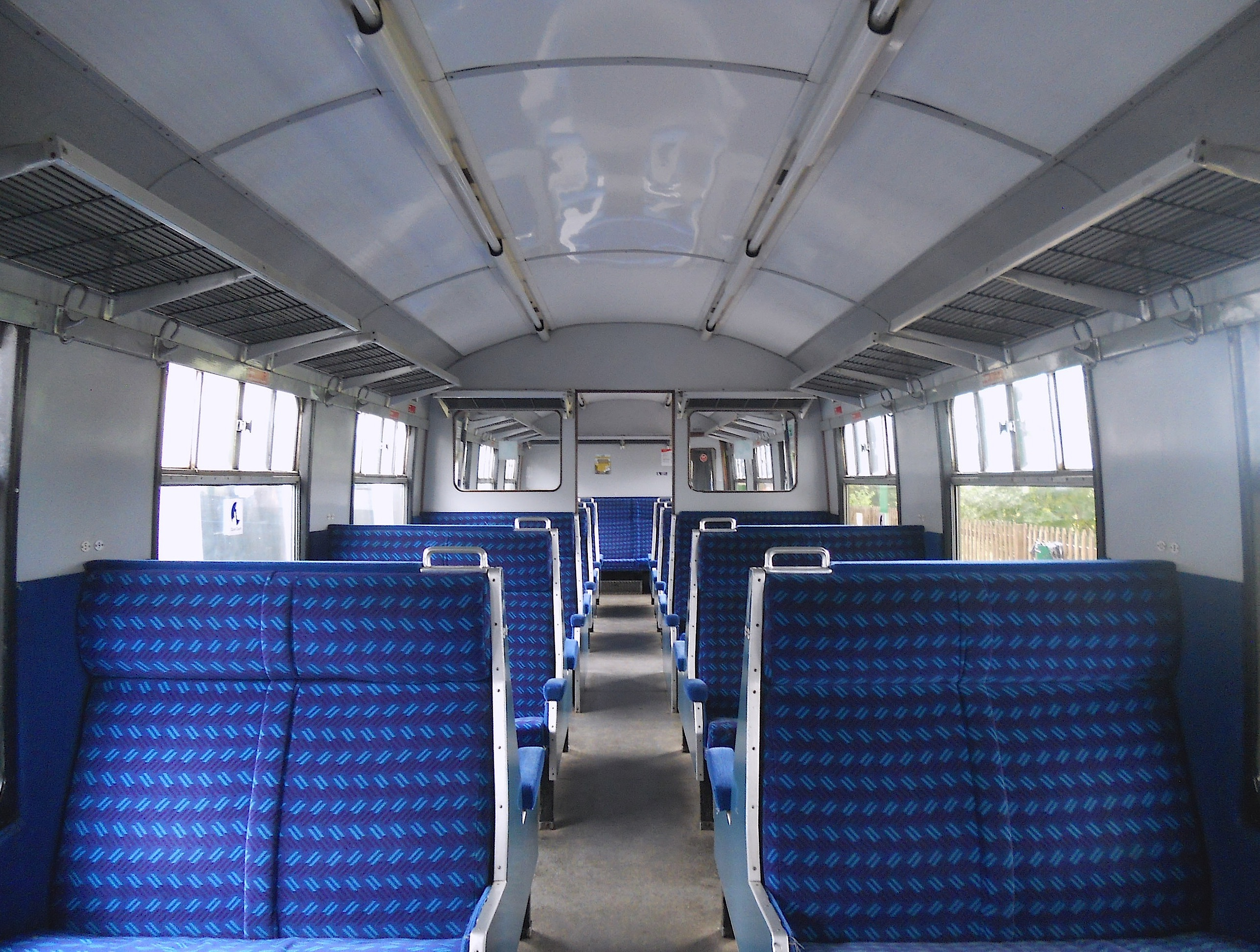 The interior of Standard Class accommodation aboard a British Rail CIG Class 421